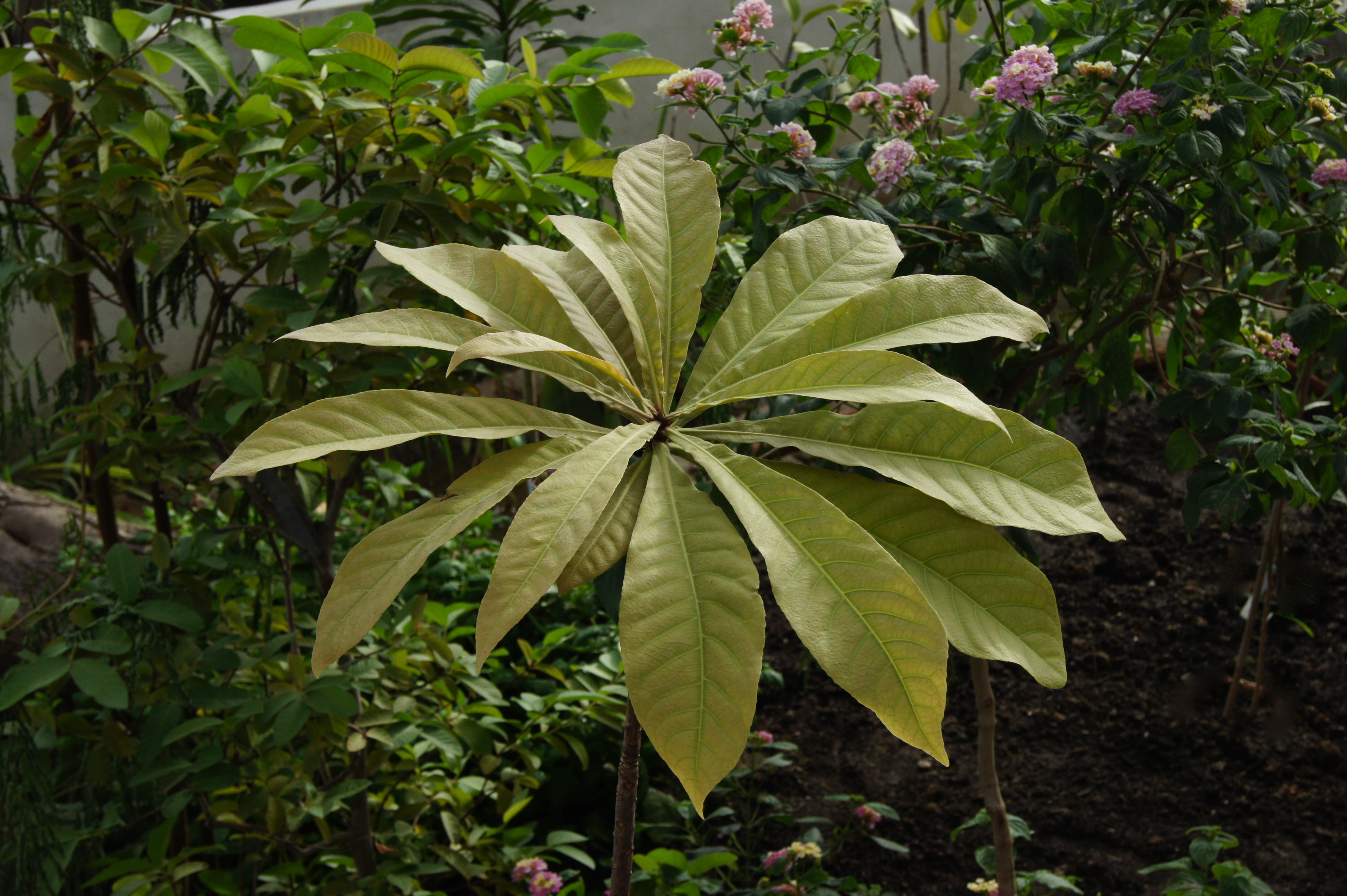 Barringtonia neocaledonica, Jardin des Plantes, Paris, new-caledonian greenhouse